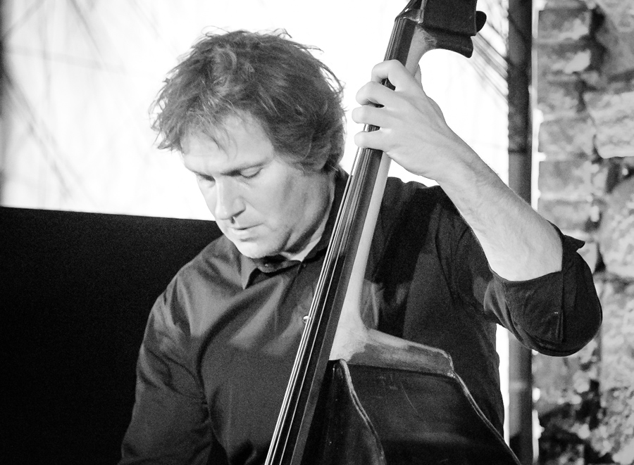 Benjamin Duboc with En Corps in Smeltehytta. The concert was part of Kongsberg Jazzfestival and took place on 05. July 2018 in Kongsberg. Lineup: Eve Risser (piano) Benjamin Duboc (double bass) Edward Perraud (drums)